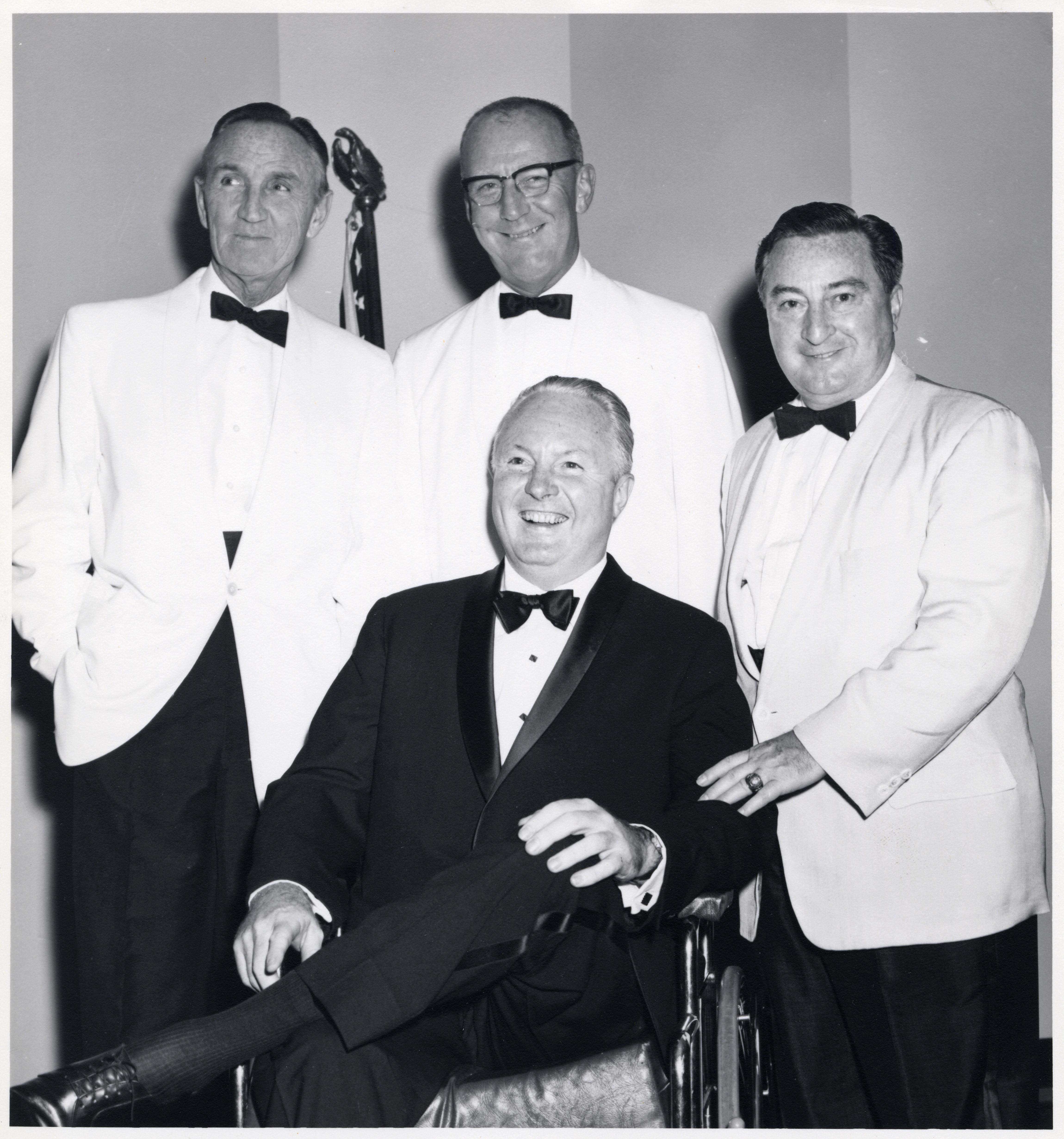 Title: Mayor John F. Collins with unidentified man; Maurice A. Donahue, president of state Senate; and John E. Powers, state Senator, South Boston Creator: City of Boston Date: circa 1960-1968 Source: Mayor John F. Collins records, Collection #0244.001 File name: 244001_0439 Rights: Copyright City of Boston Citation: Mayor John F. Collins records, Collection #0244.001, City of Boston Archives, Boston